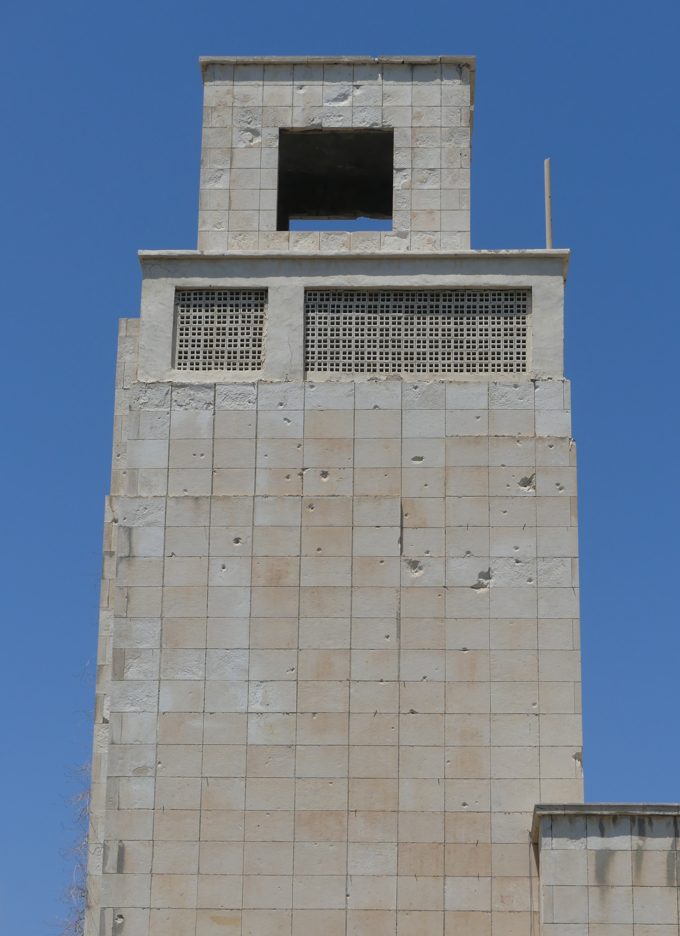 Bullet holes in the Eastern side of the tower of the Jafariya School in Tyre, Southern Lebanon, from the 1958 military campaign of President Camille Chamoun's government against a pan-arabist rebellion